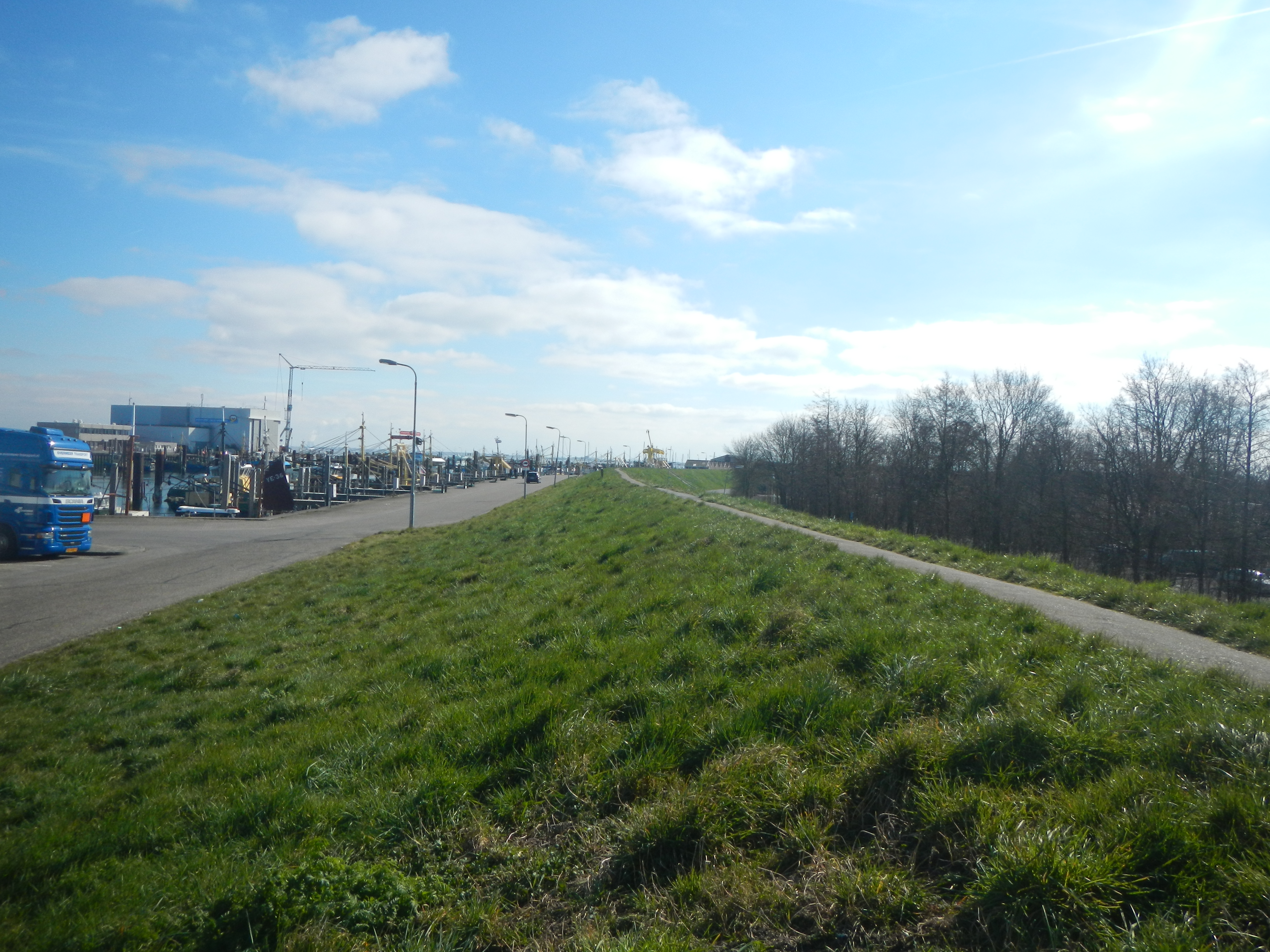 Harbor of Yerseke